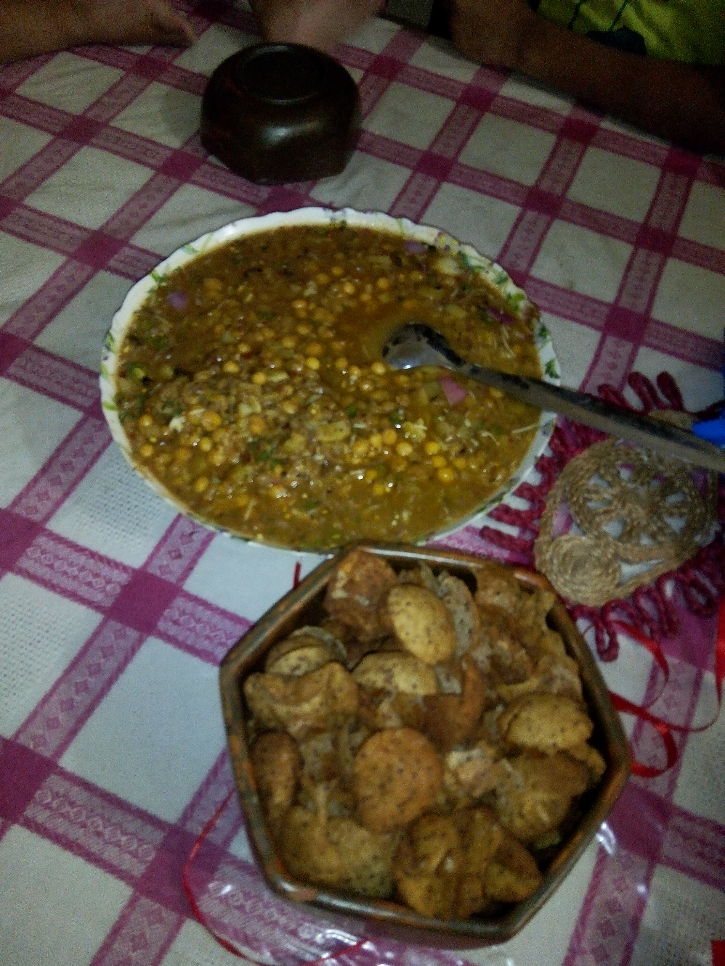 Chotpoti is a quick street food in Bangladesh